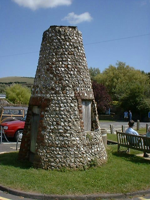 This curious structure, built in the local flint, stands by the main car park in Alfriston, East Sussex.This page offers a choice as to what its function was: dovecote or lock-up.